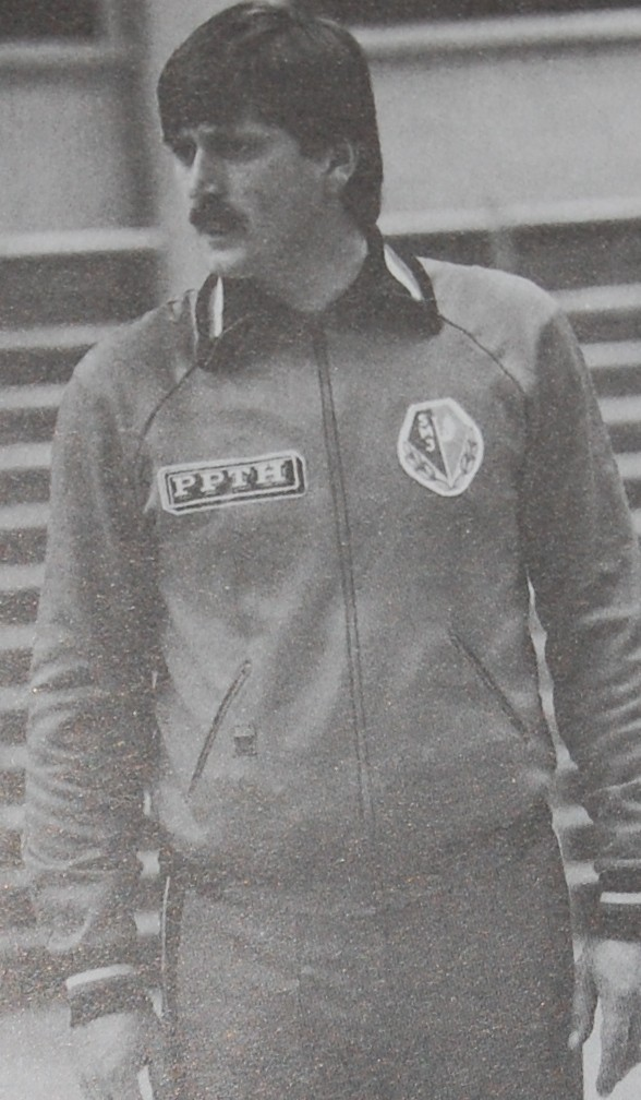 Polish volleyball coach Vodek Sadalski